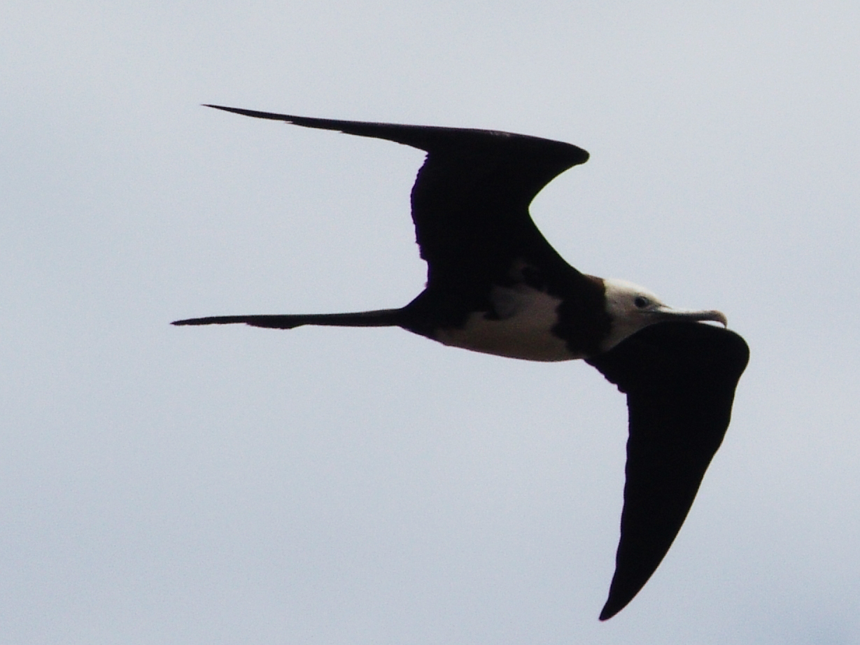 Ascension Frigatebird (Fregata aquila) Breeds only on Boatswainbird Island off Ascension. 2008 IUCN Red List Category Vulnerable